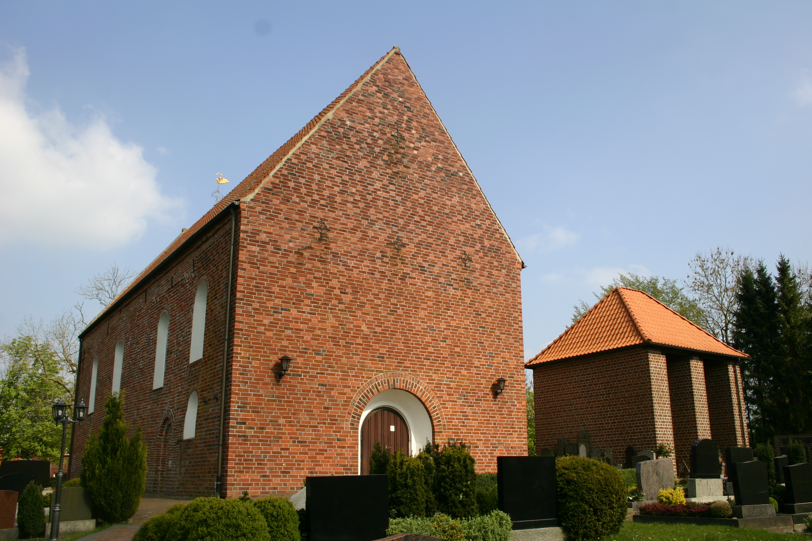 Historic church in Westerende-Kirchloog, district of Aurich, East Frisia, Germany